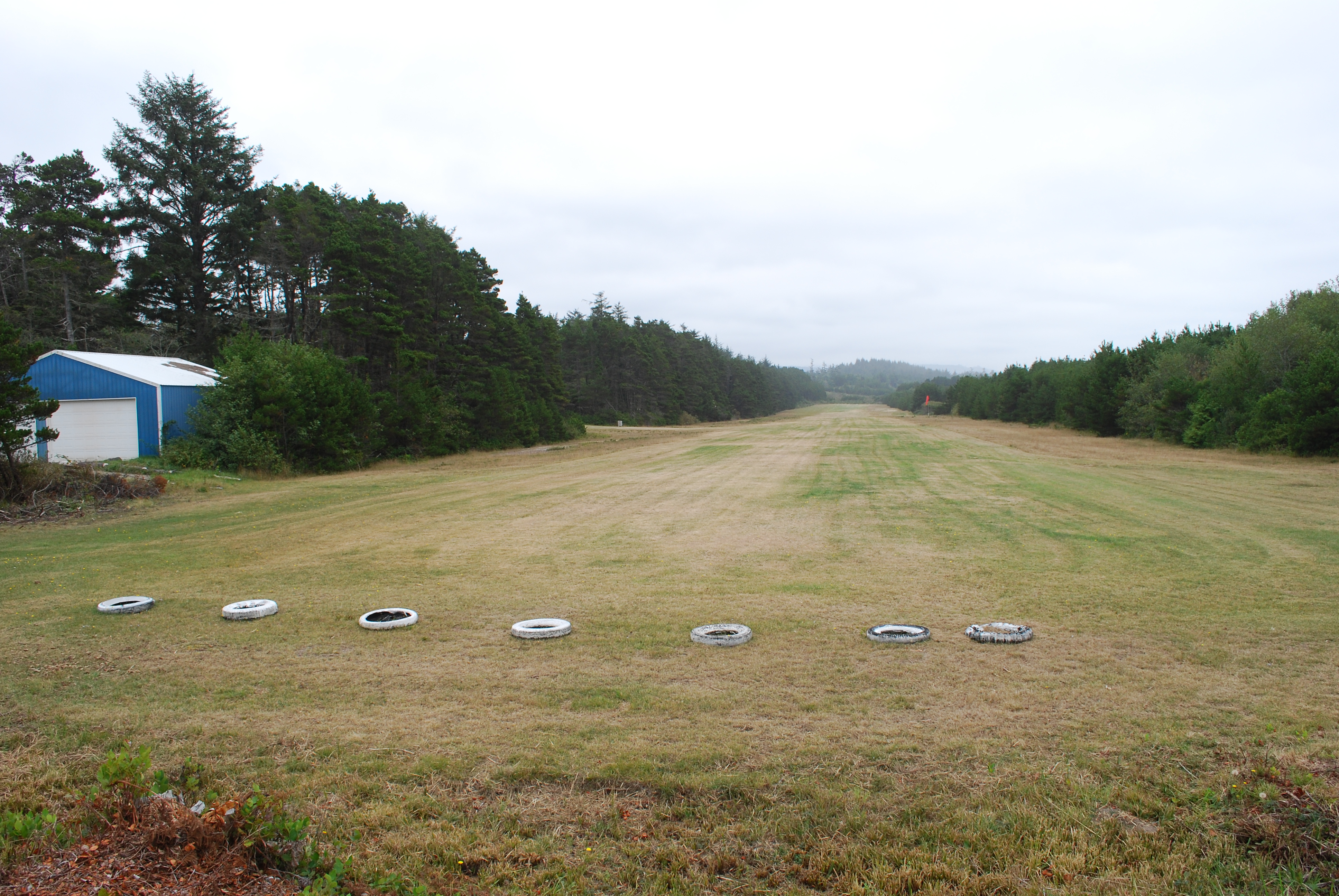 Looking south on Wakonda Beach State Airport